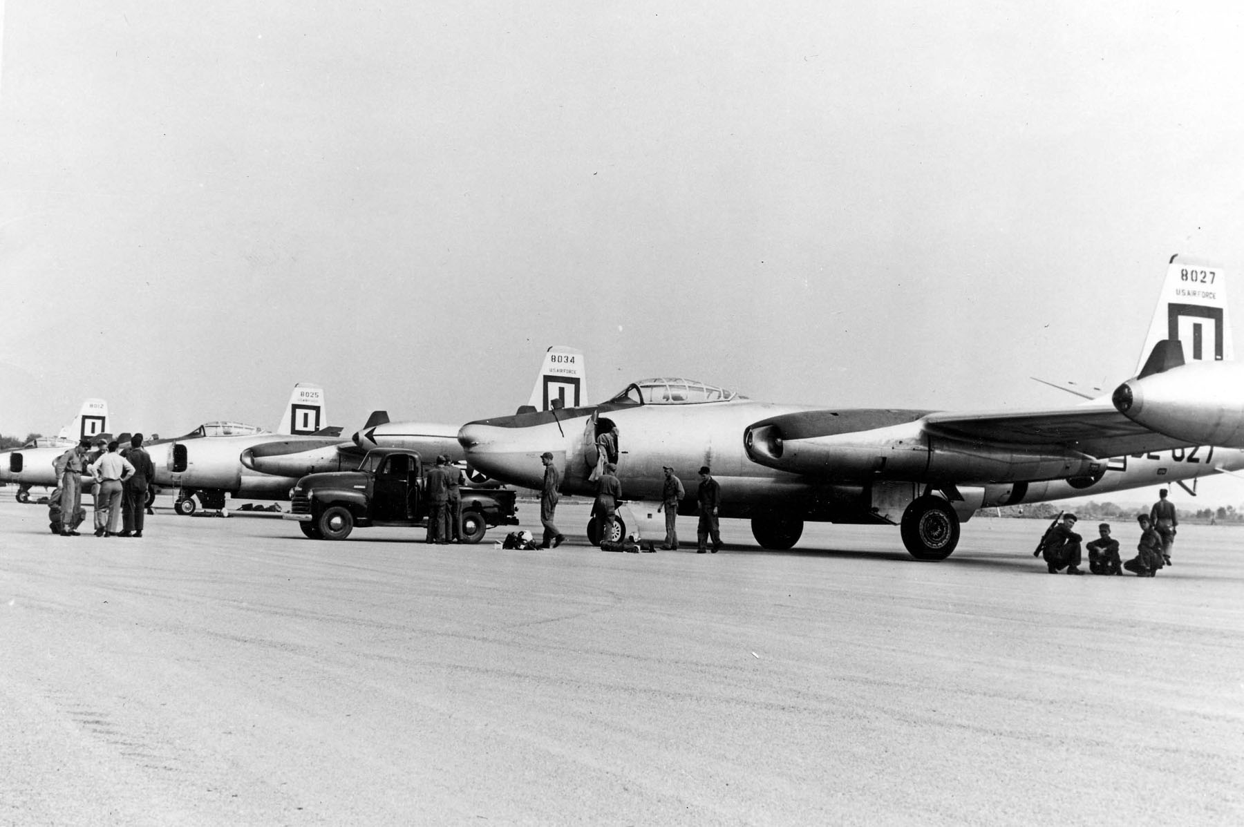 North American RB-45C Tornados of the 91st Strategic Recon Wing. Serials 48-027, 48-034, 48-025 and 48-012 identifiable. These aircraft were all withdrawn from service on 6 September 1957.